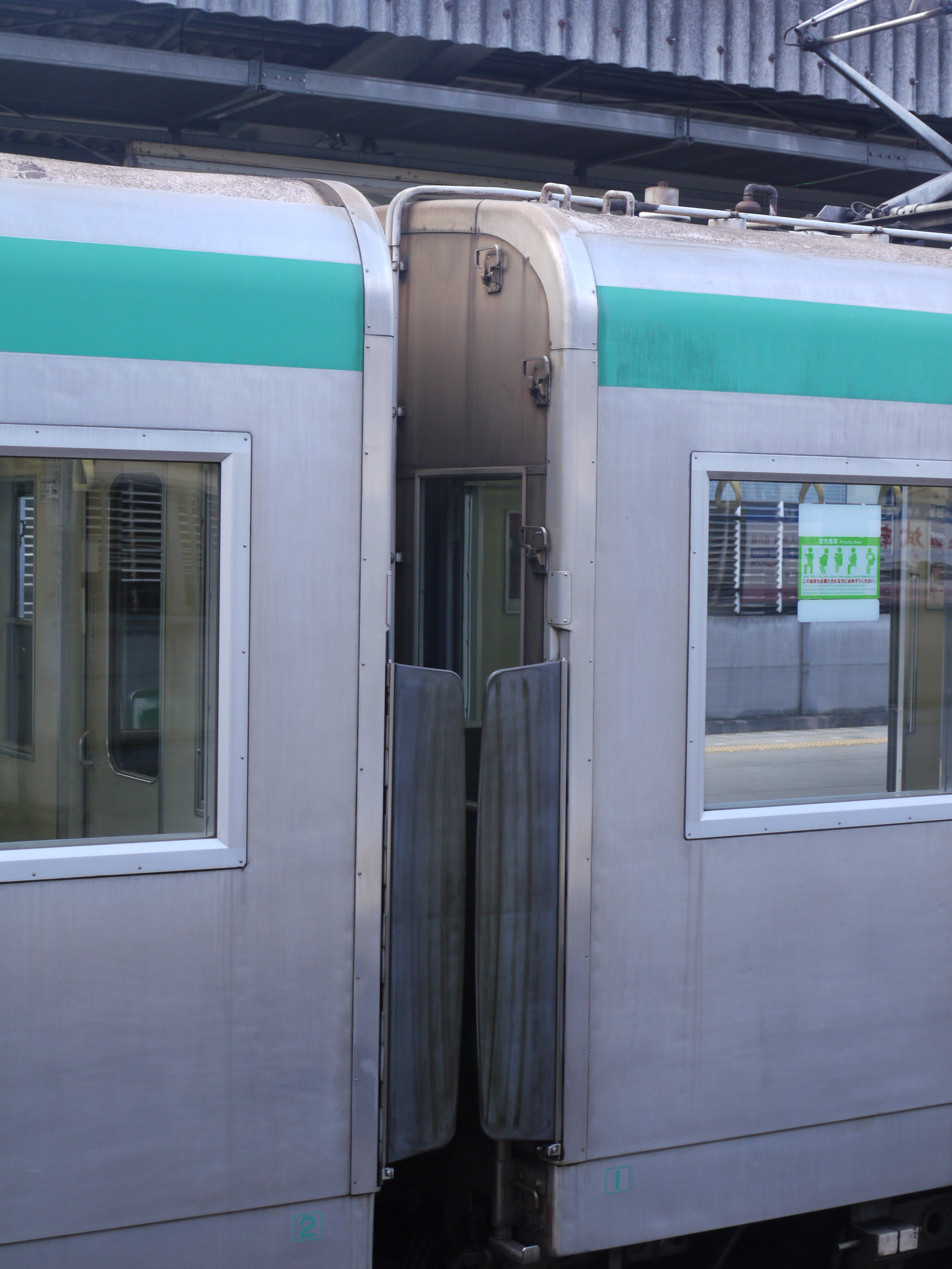 Coupling between carriages of Kyoto subway 10 series